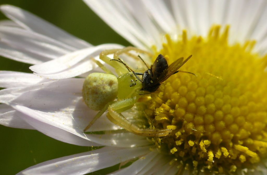 Misumena vatia